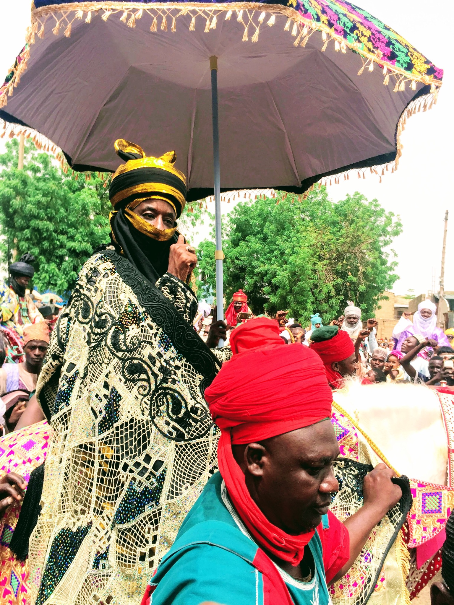 A picture of Emir Muhammad Sanusi of Kano during Eid el fitr 2018 durban